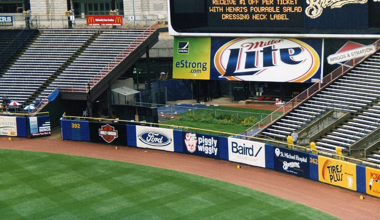 The bullpen for Milwaukee County Stadium, now demolished.